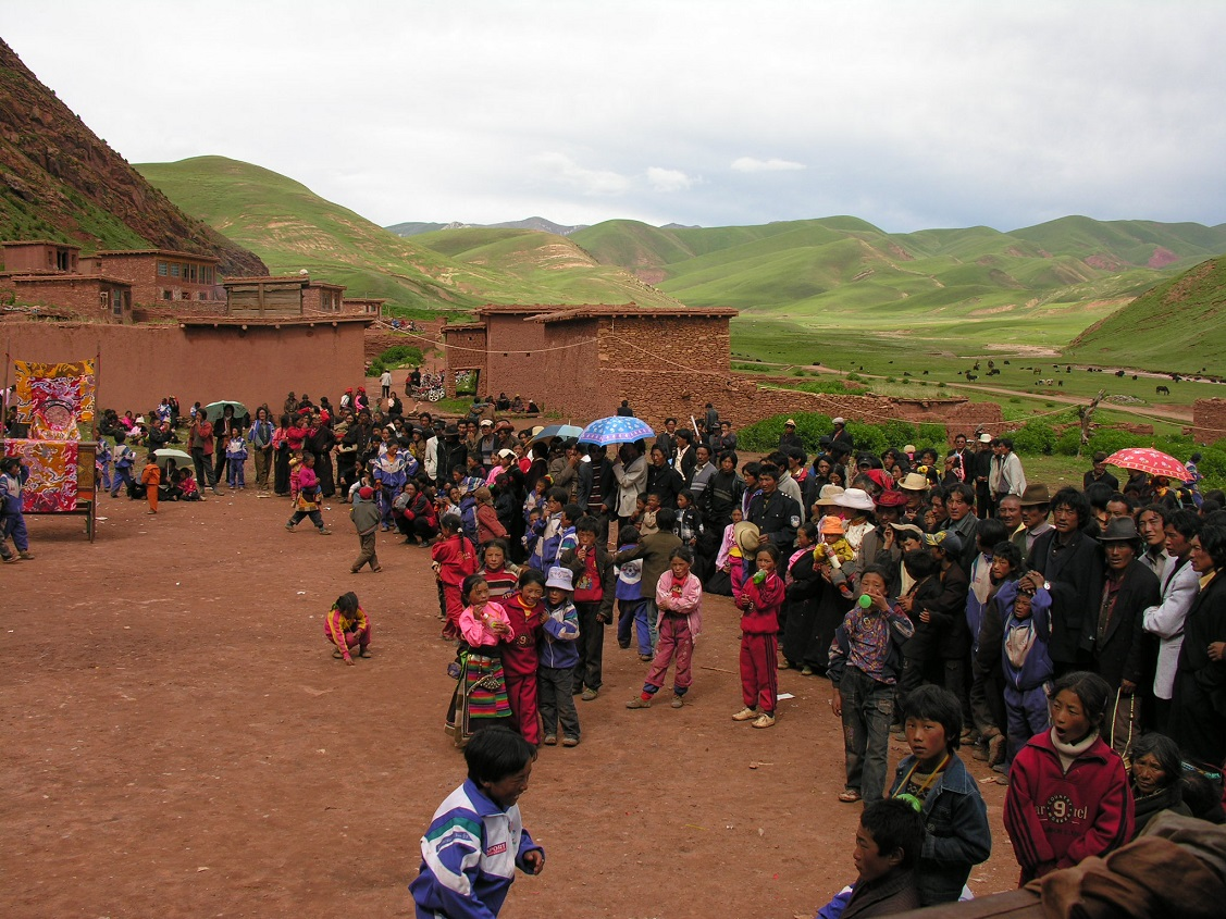 Nangchen Dompa Gompa monastic festival